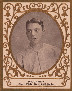 1909 Ramly baseball card of Moose McCormick